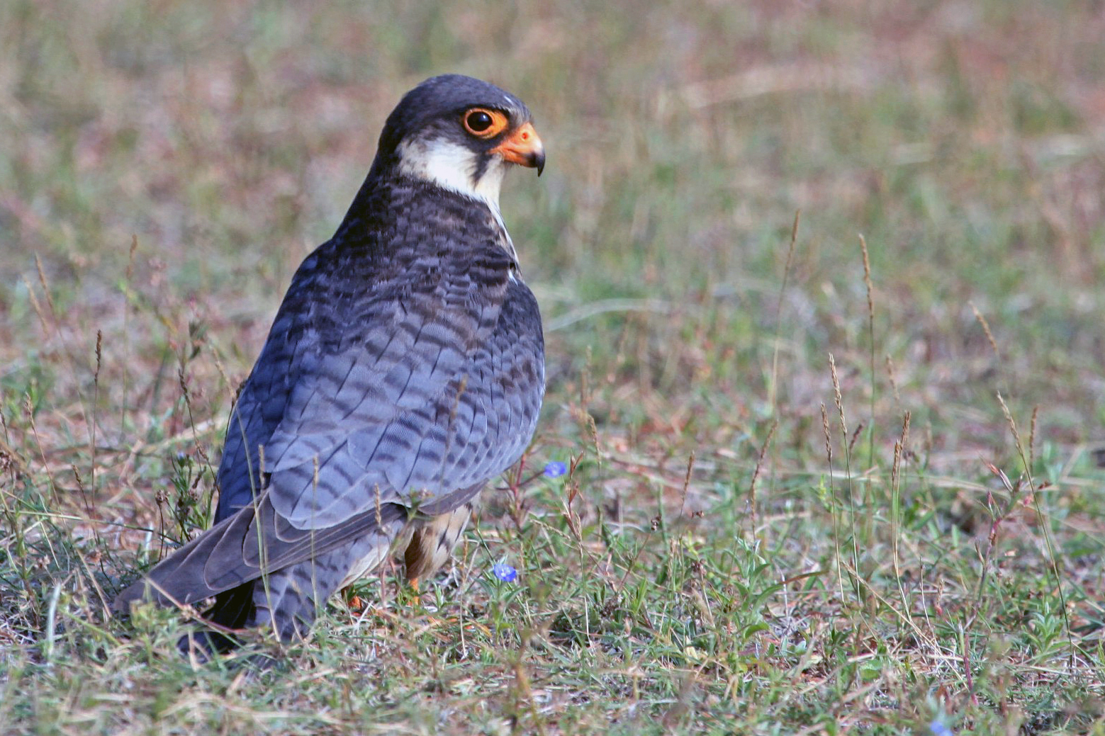 The Amur falcon (Falco amurensis) is a small raptor of the falcon family. It breeds in south-eastern Siberia and Northern China before migrating in large flocks across India and over the Arabian Sea to winter in Southern Africa. It was earlier treated as a subspecies of the red-footed falcon (Falco vespertinus) and known as the eastern red-footed falcon. Males are dark grey with reddish brown thighs and undertail coverts; reddish orange eye-ring, cere, and feet. Females are duller above, with dark scaly markings on white underparts, an orange eye ring, cere, and legs. Only a pale wash of rufous is visible on their thighs and undertail coverts. Their diet consists mainly of insects, such as termites; during migration over the sea, they are thought to feed on migrating dragonflies. The route that they take from Africa back to their breeding grounds is as yet unclear.